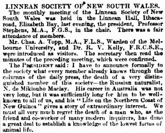 Announcement of death Miklukho-Maclay at the meeting of the Linnean Society of New South Wales, 25 April 1888